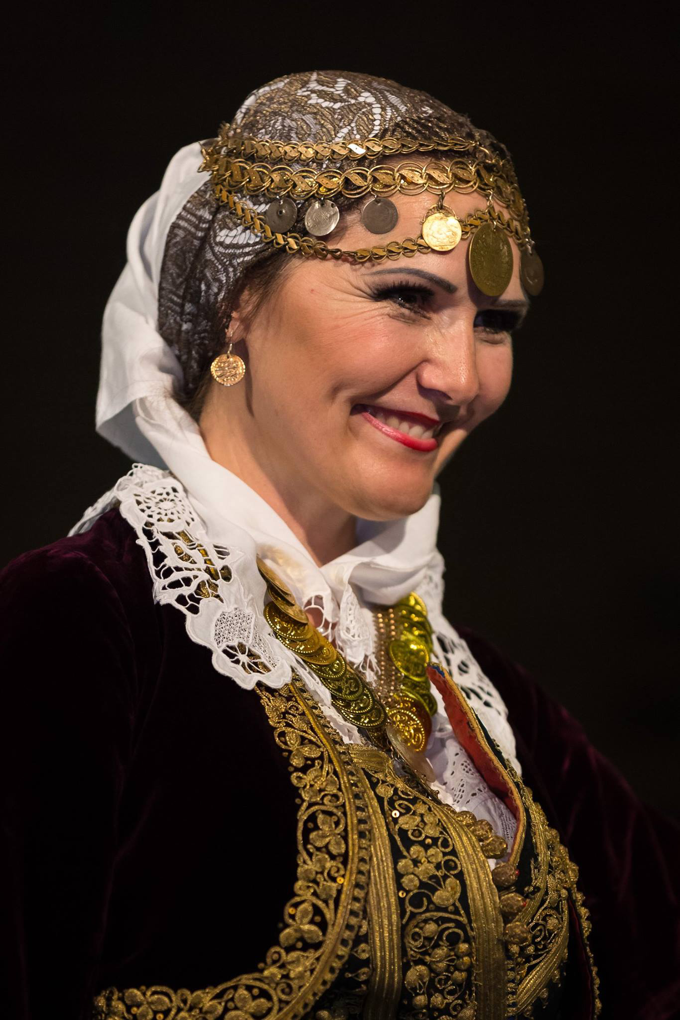 Biljana Regan in the folk costume of her native Mačva Српски (ћирилица): Биљана Реган у народној ношњи родне Мачве Srpski (latinica): Biljana Regan u narodnoj nošnji rodne Mačve